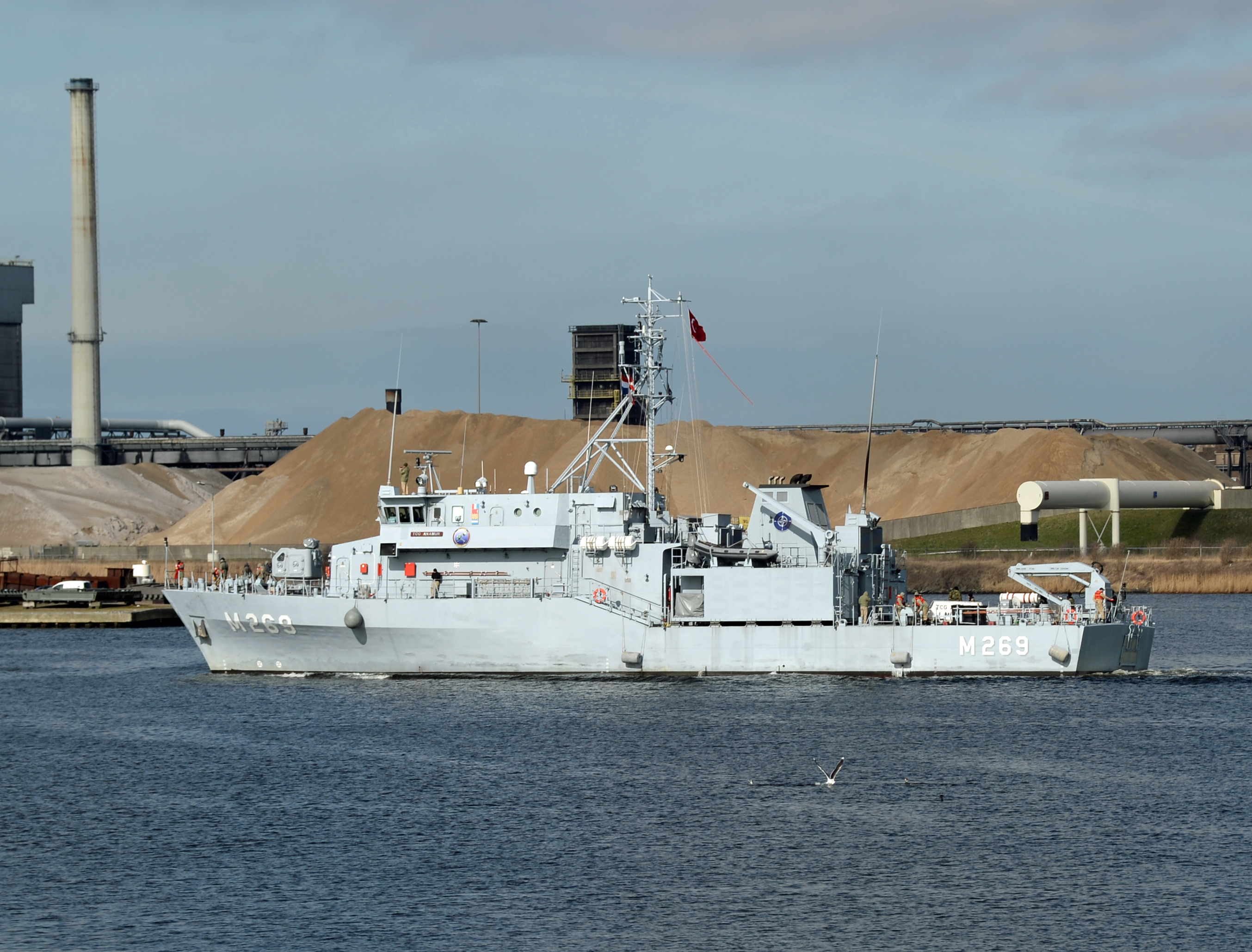 M 269 TCG Anamur aydin class Turkish Navy minehunter on the Noordzeekanaal at IJmuiden.